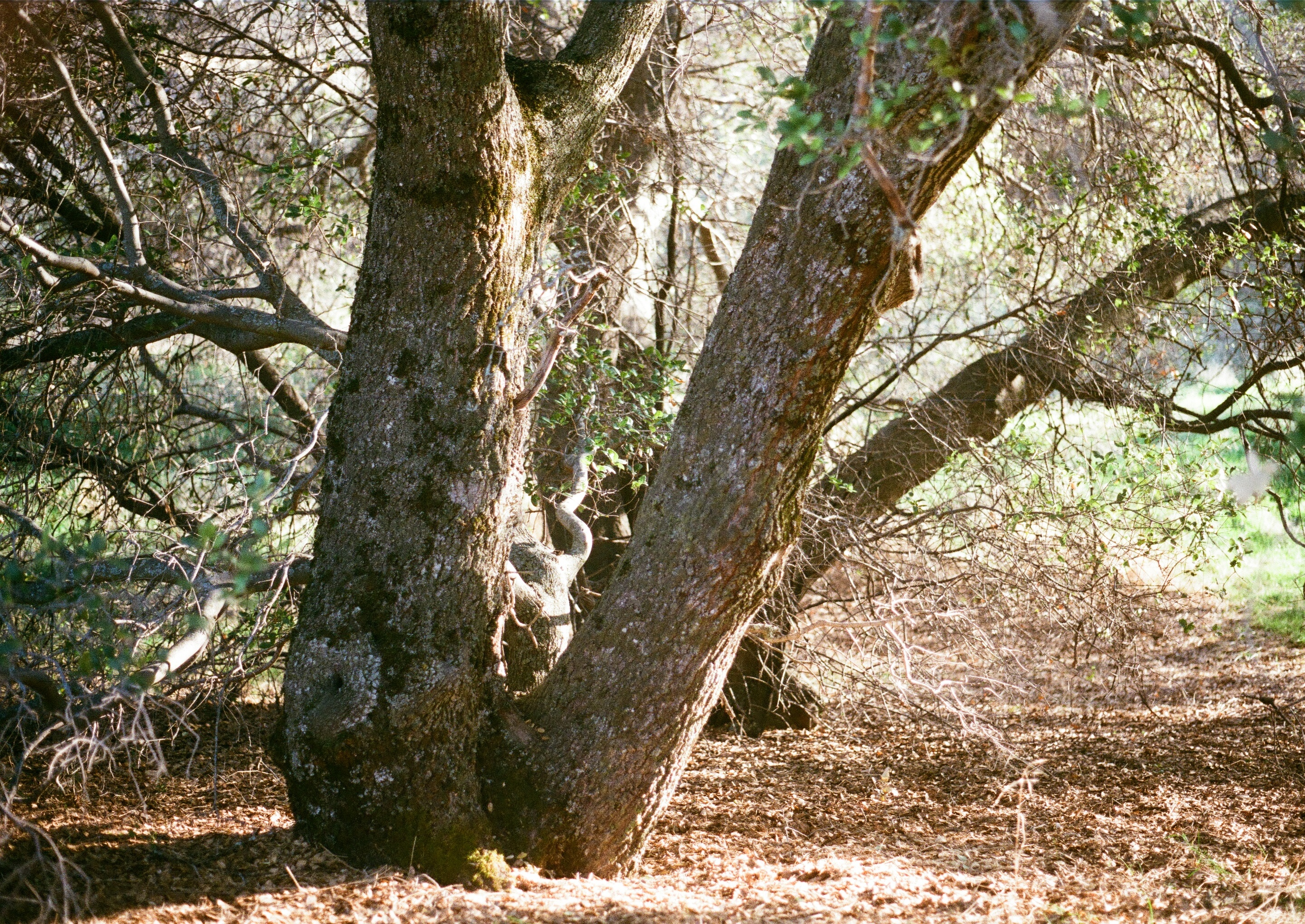 Quercus wislizeni trunks and bark